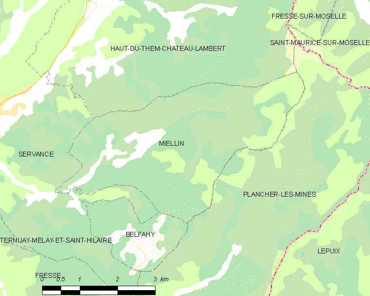 Map of French municipality